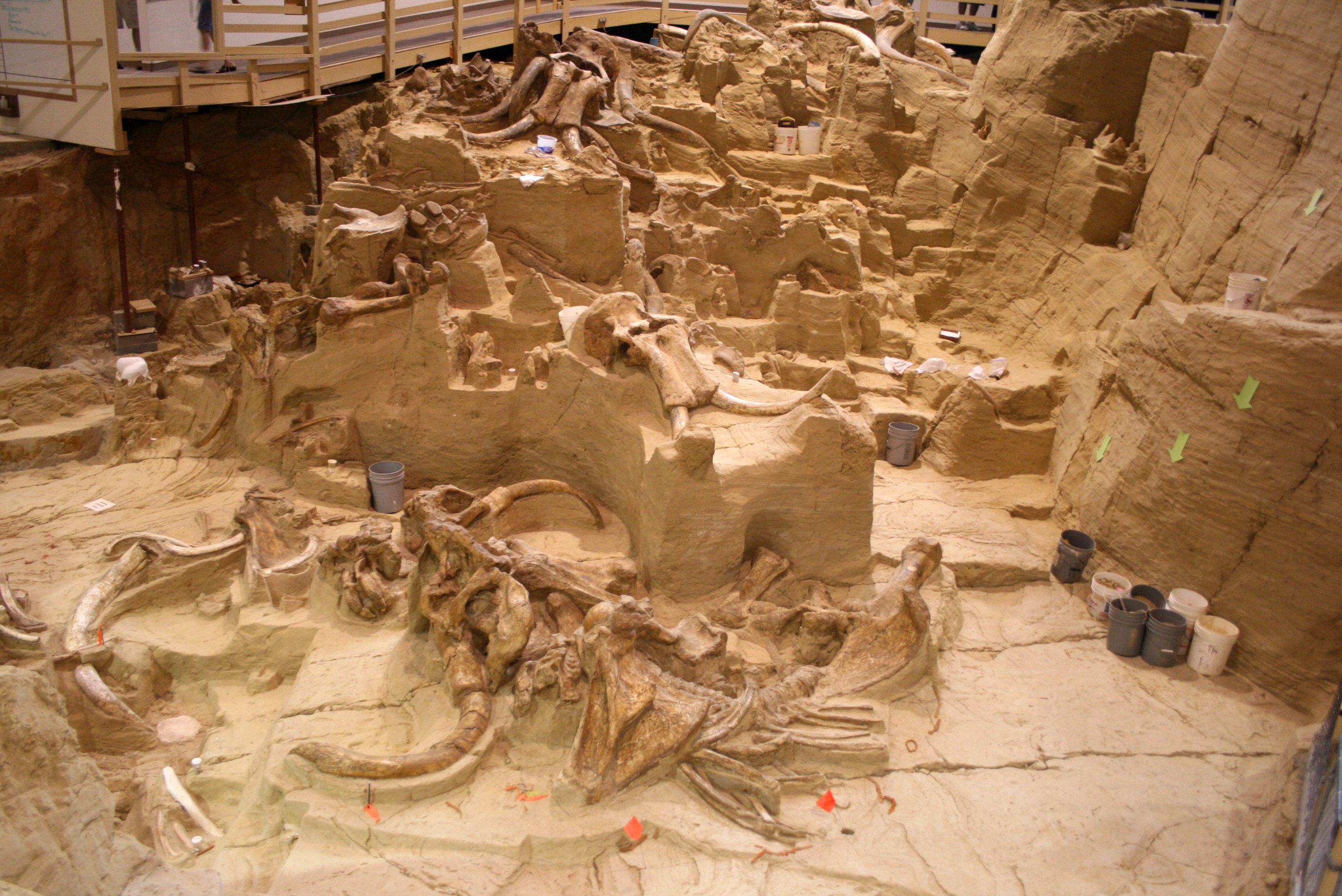 Many mammoth bones under excavation